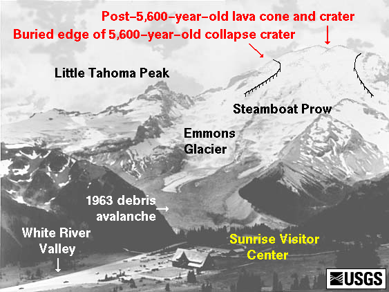 United States National Park Service photo (plus illustration) of Mount Rainier